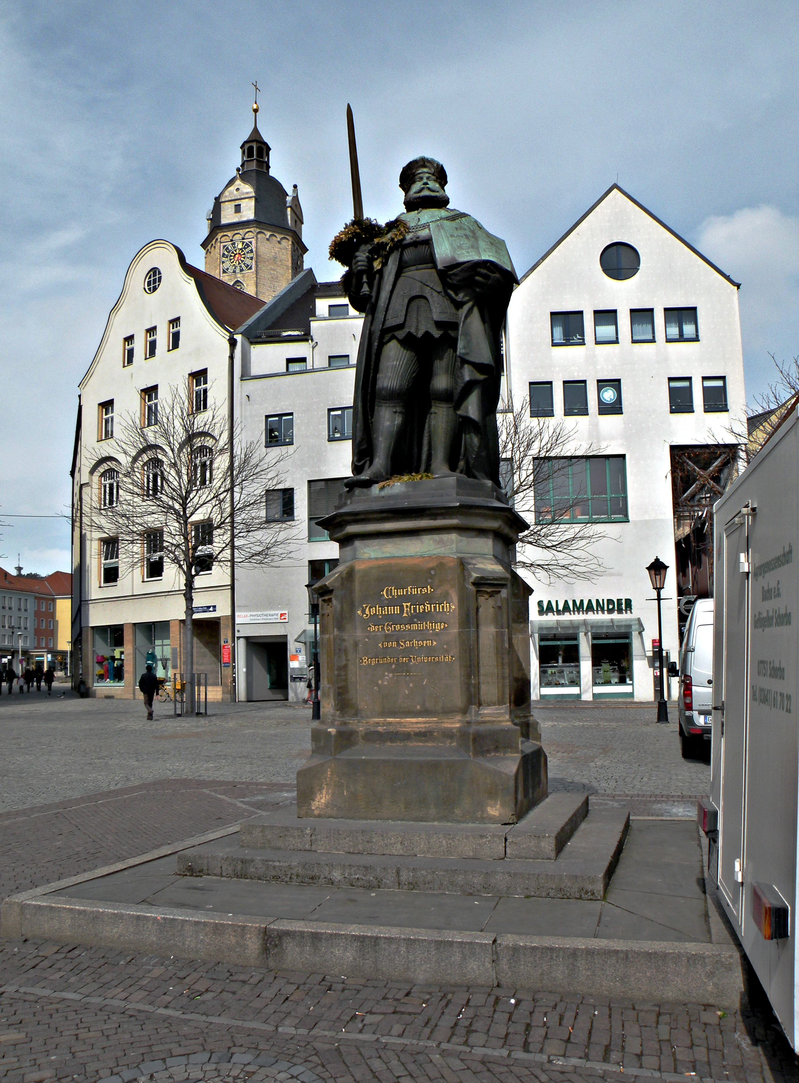 Monument of Johann Friedrich, Elector of Saxony, on the Market Square in Jena, Germany